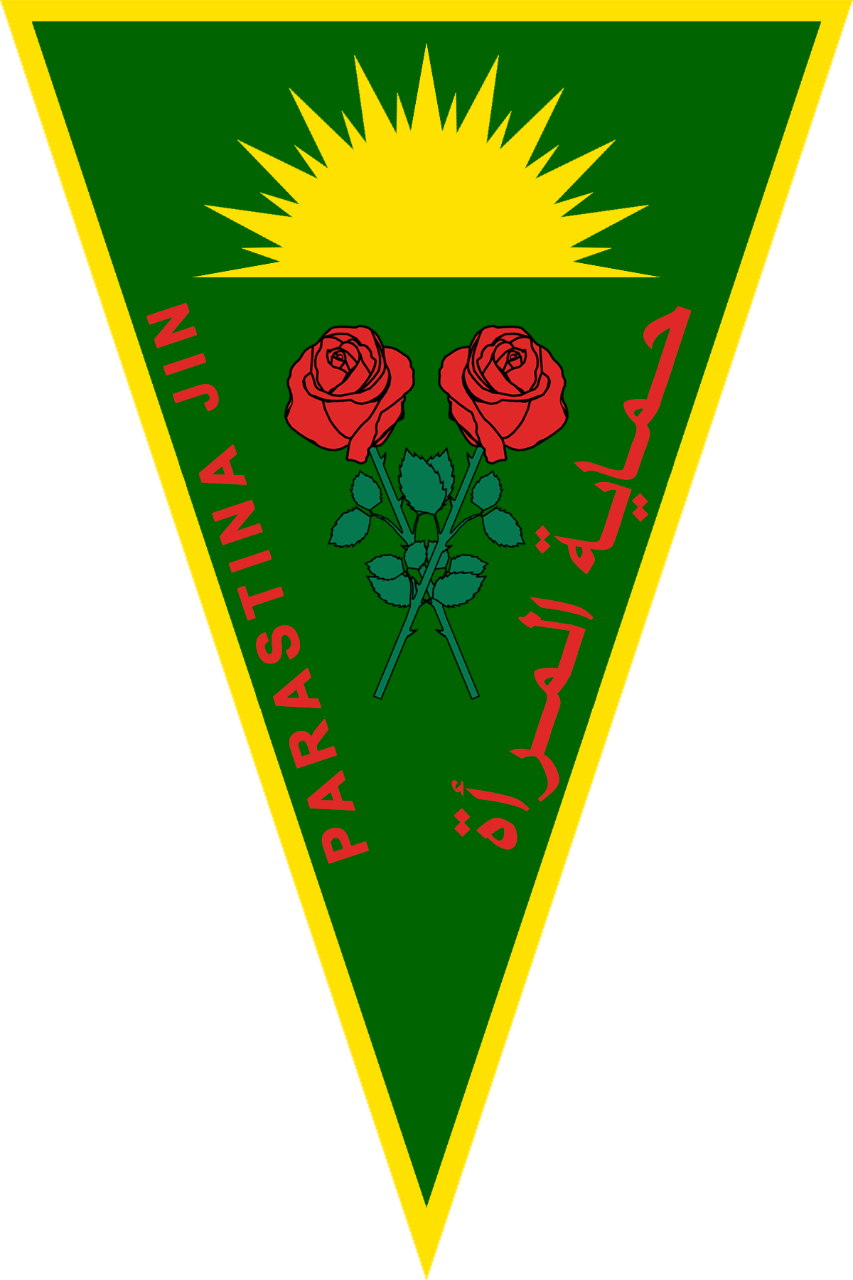 Own work.